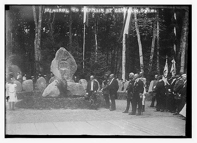 Memorial to Count Zeppelin in Zeppelin, Germany